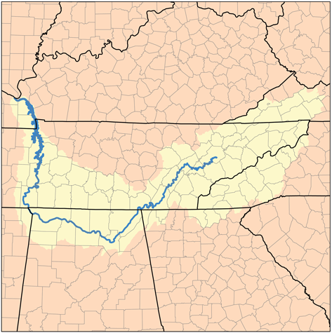 This is a map of the Tennessee River Watershed. I, Karl Musser, created it based on USGS data.